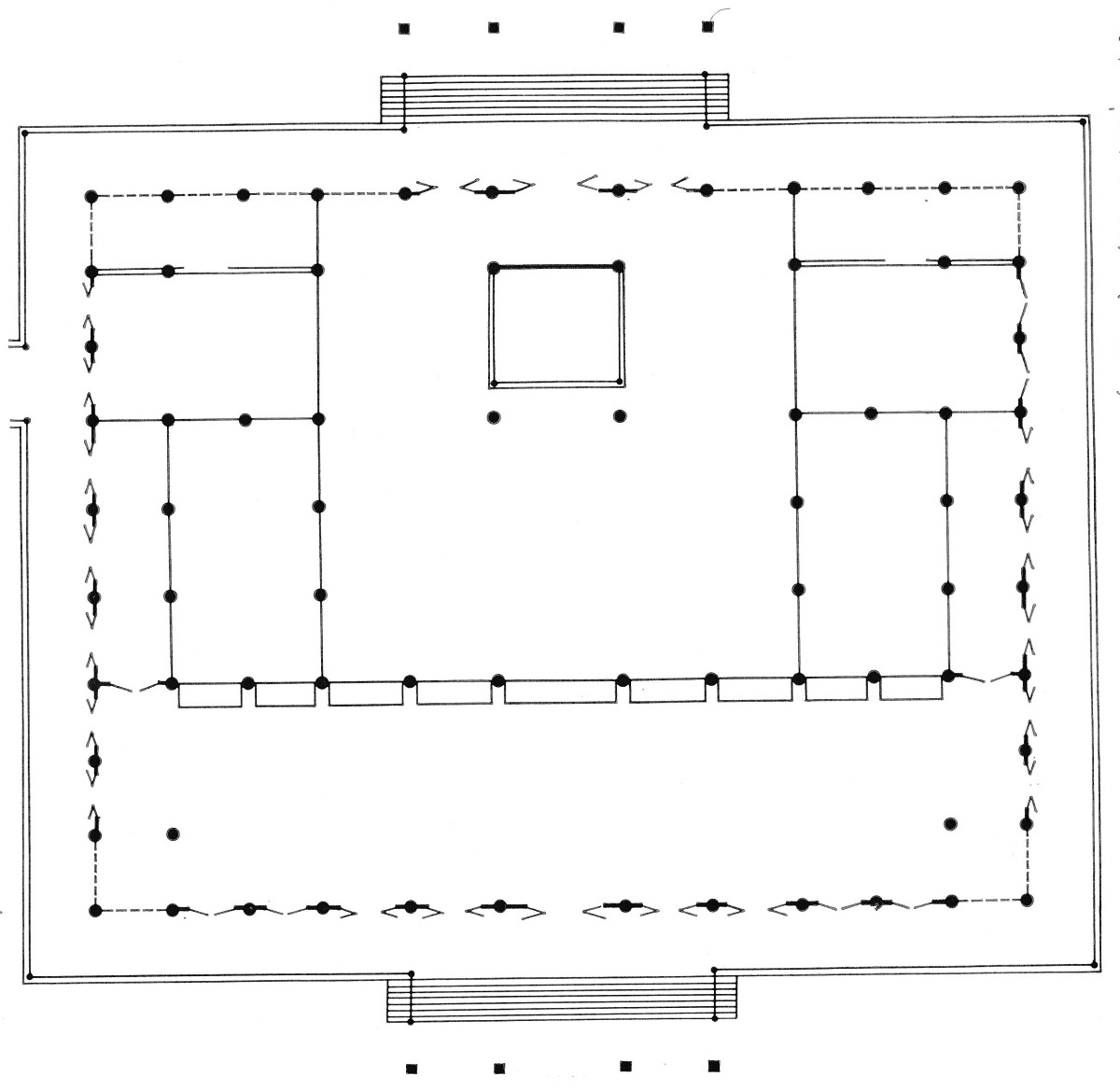 Main hall of Chion-in, Kyoto